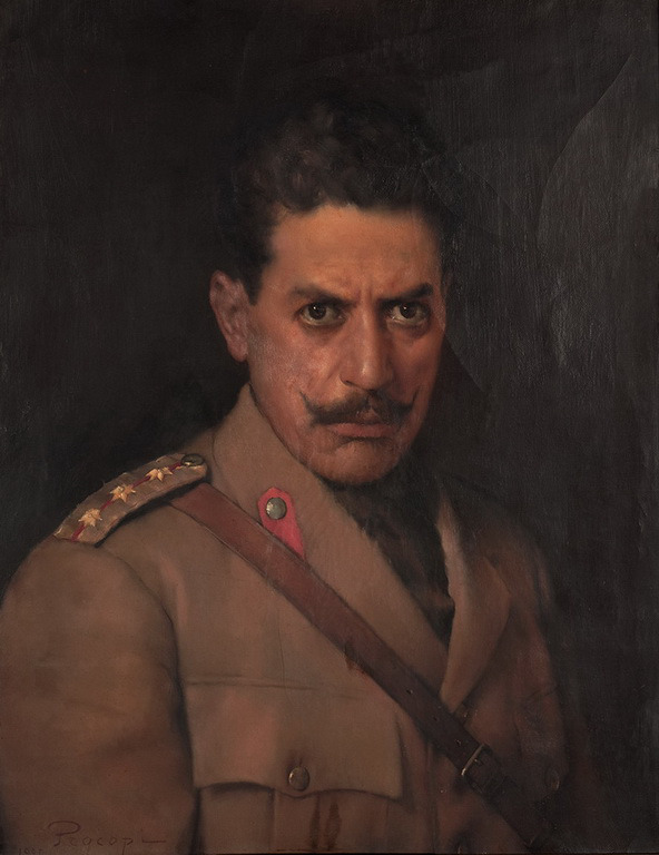 Colonel G.Kondylis